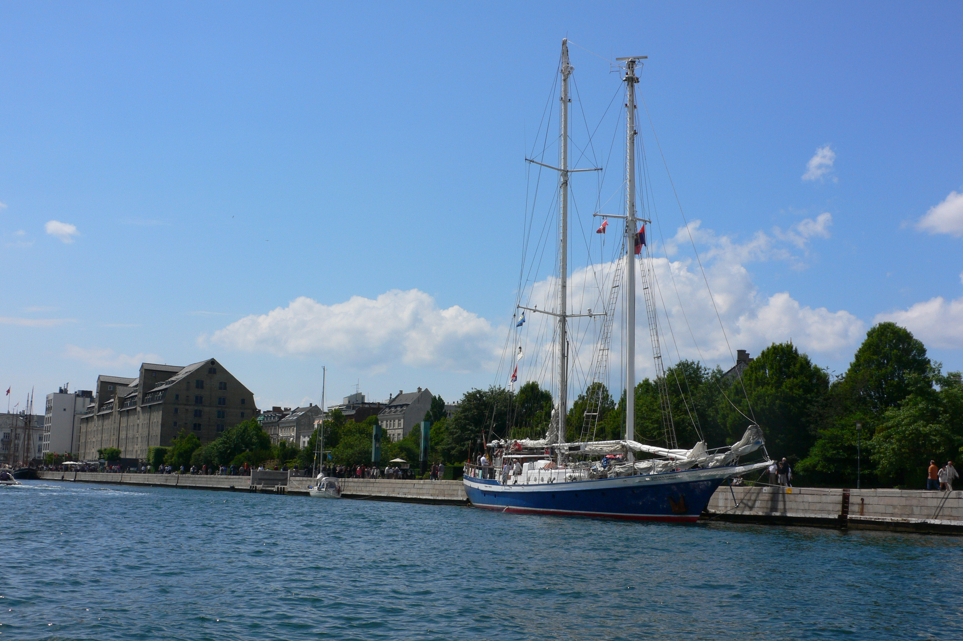 The southern end of Larsens Plads in Copenhagen. The Amaliehaven park to the right and the Double Warehouse in the Middle.